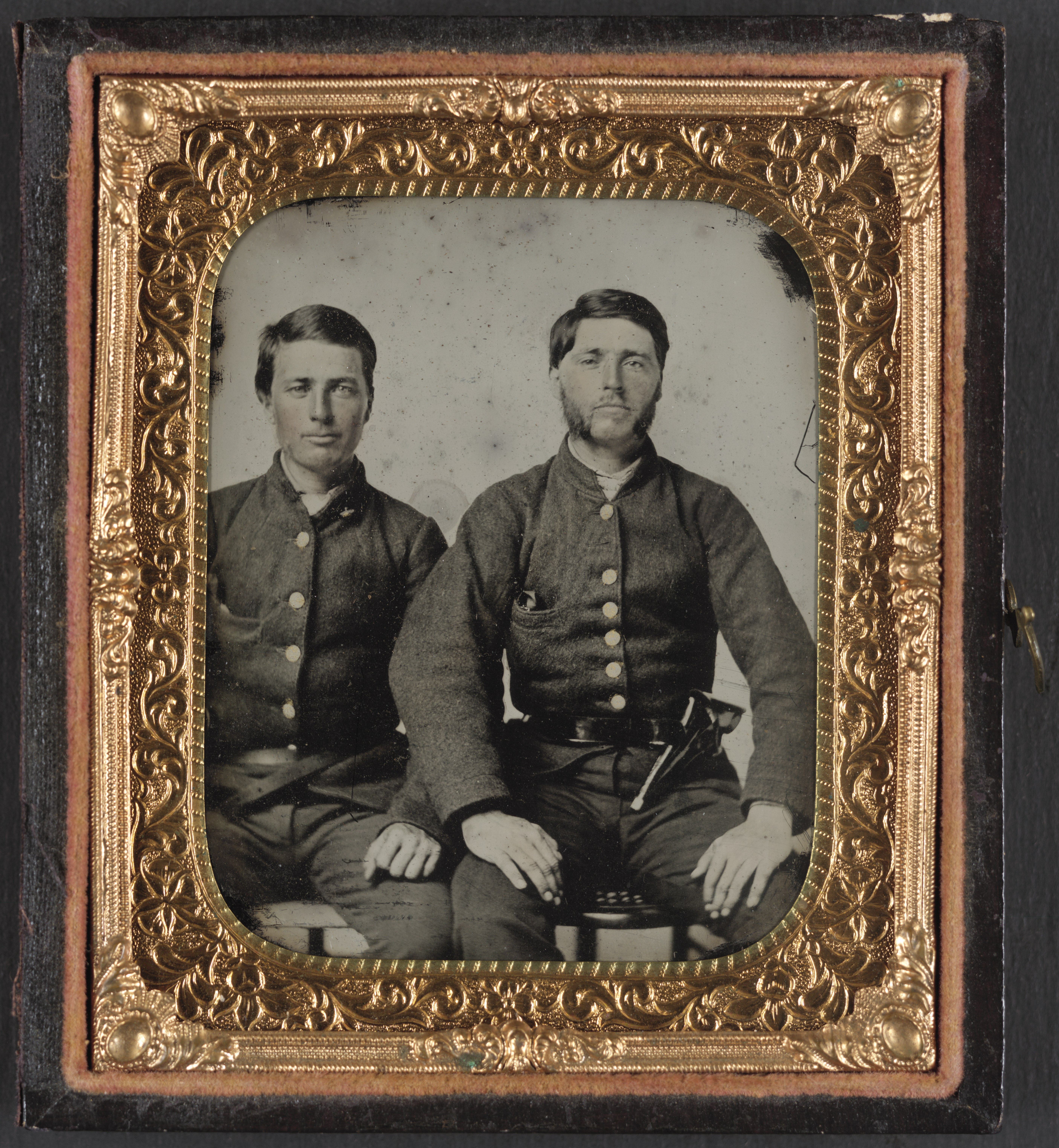 Title: Brothers Private Stephen D. and Private Moses M. Boynton of Co. C, Beaufort District Troop, Hampton Legion South Carolina Cavalry Battalion, with pistol Abstract/medium: 1 photograph : sixth-plate ambrotype, hand colored ; 9.4 x 8.2 cm (case)